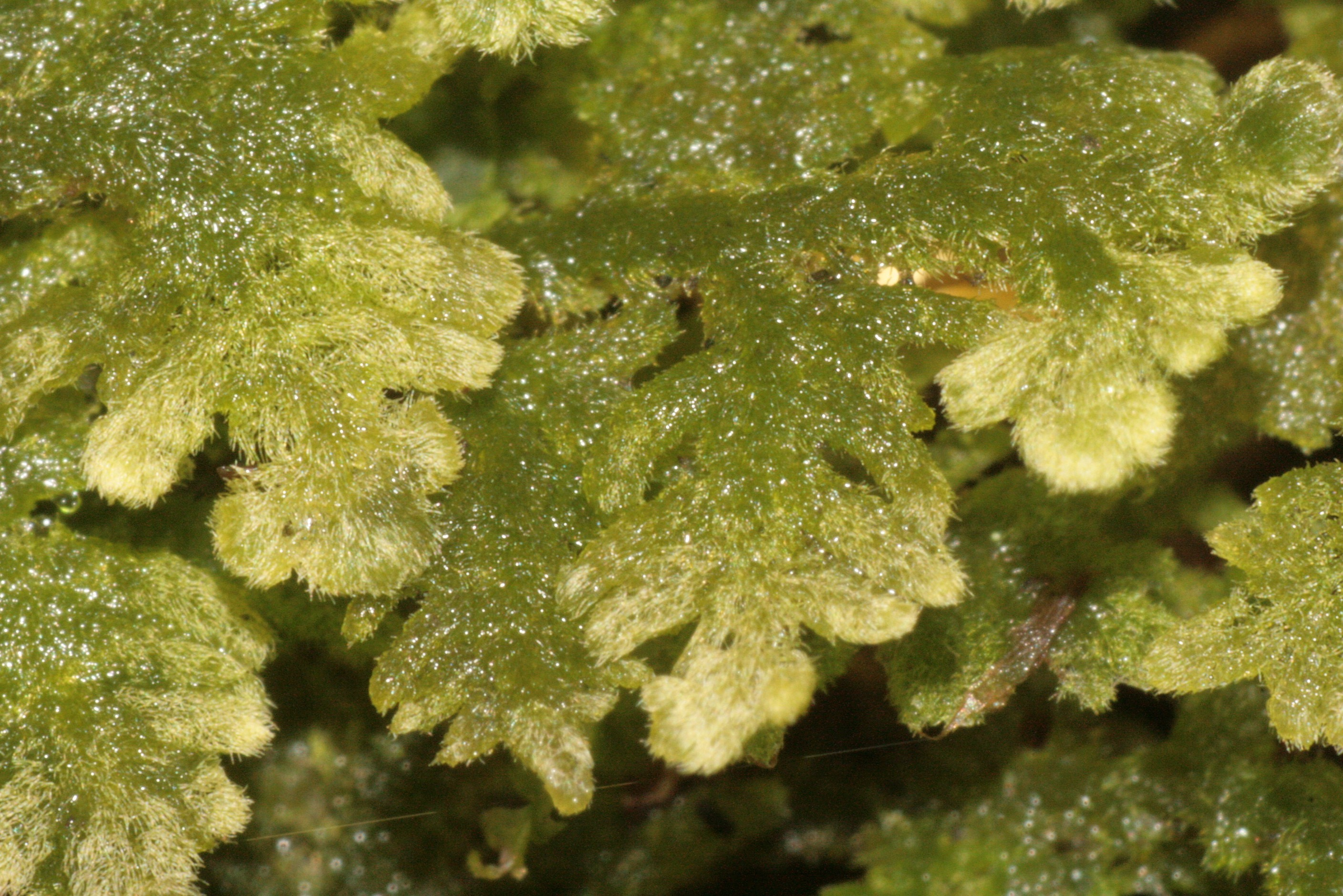 Trichocolea tomentella